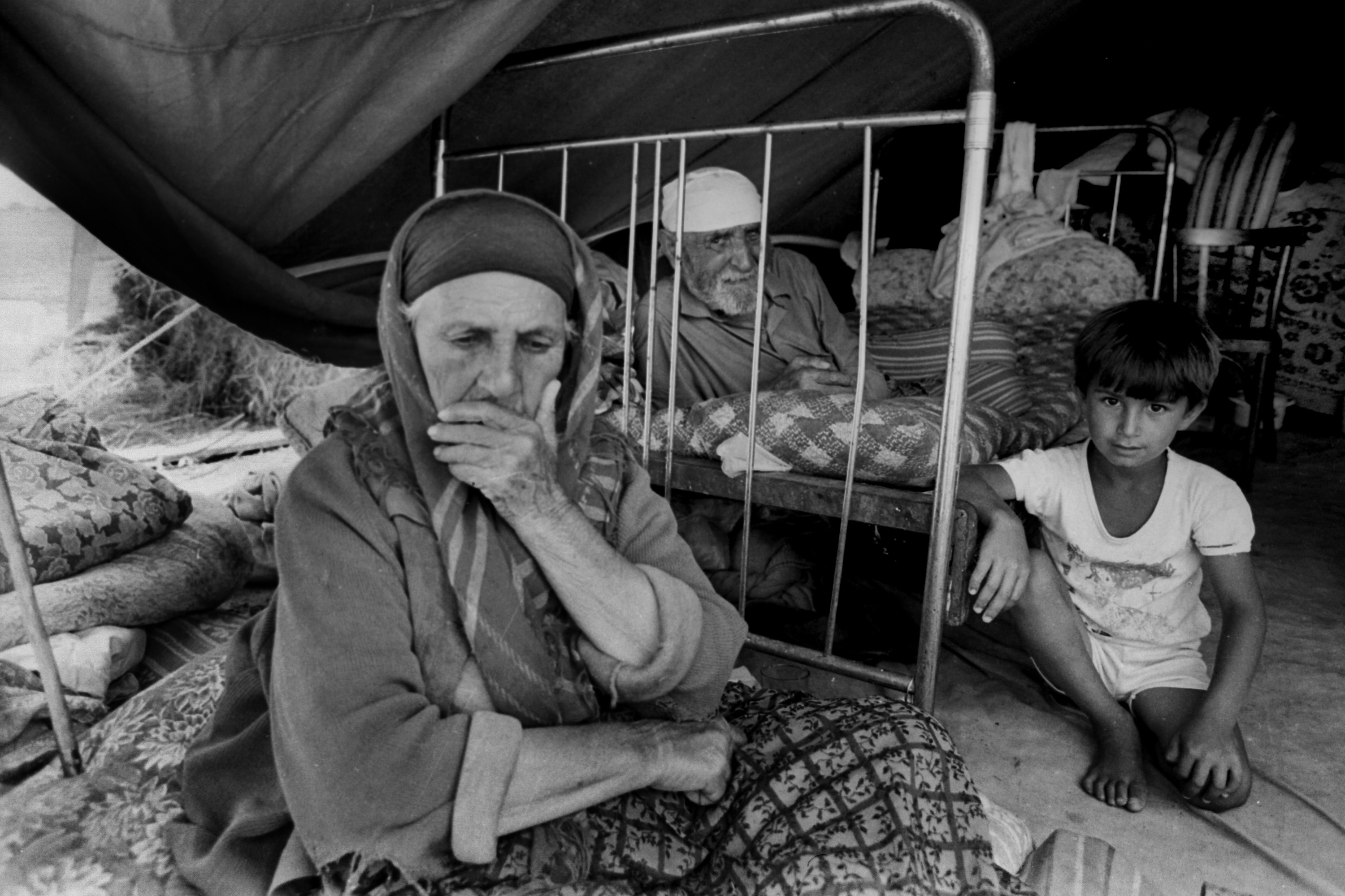 Azerbaijani refugees from Karabakh. Agdam.